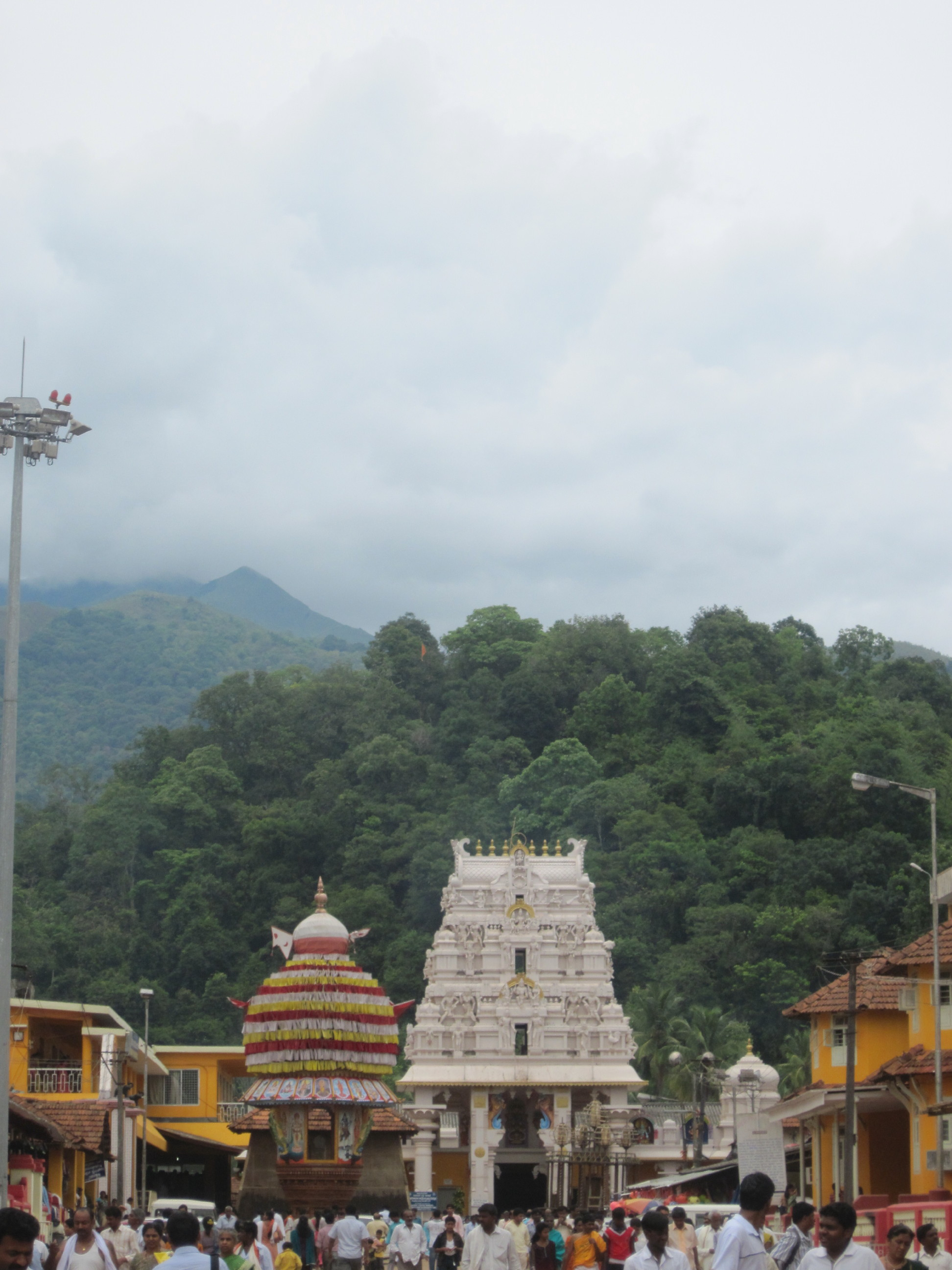 Kukke Subramanya Temple, Dakshina Kannada, Karnataka ಕುಕ್ಕೆ ಸುಬ್ರಹ್ಮಣ್ಯ ದೇವಾಲಯ, ದಕ್ಷಿಣ ಕನ್ನಡ, ಕರ್ನಾಟಕ